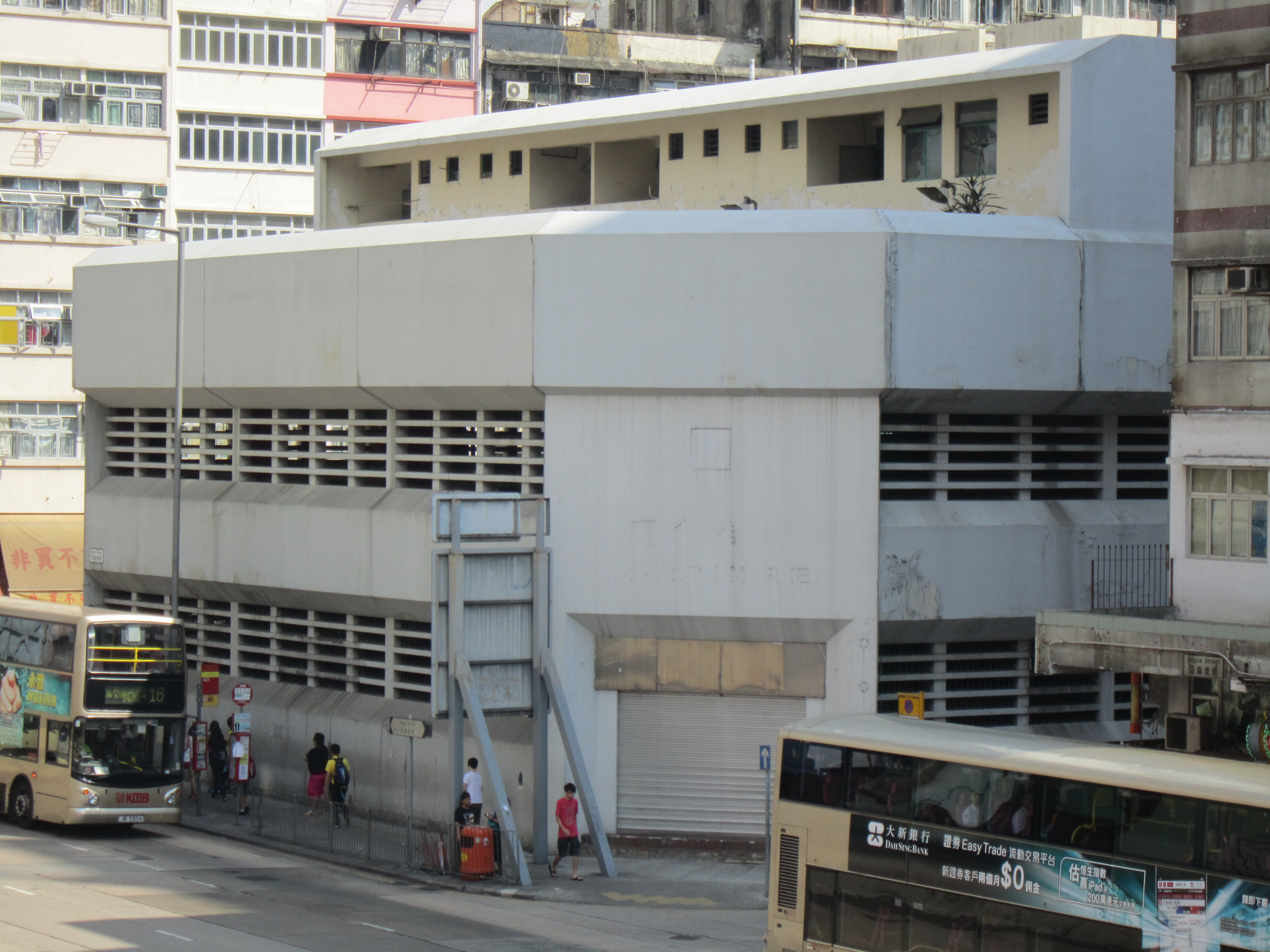 Abandoned Mong Kok Market complex